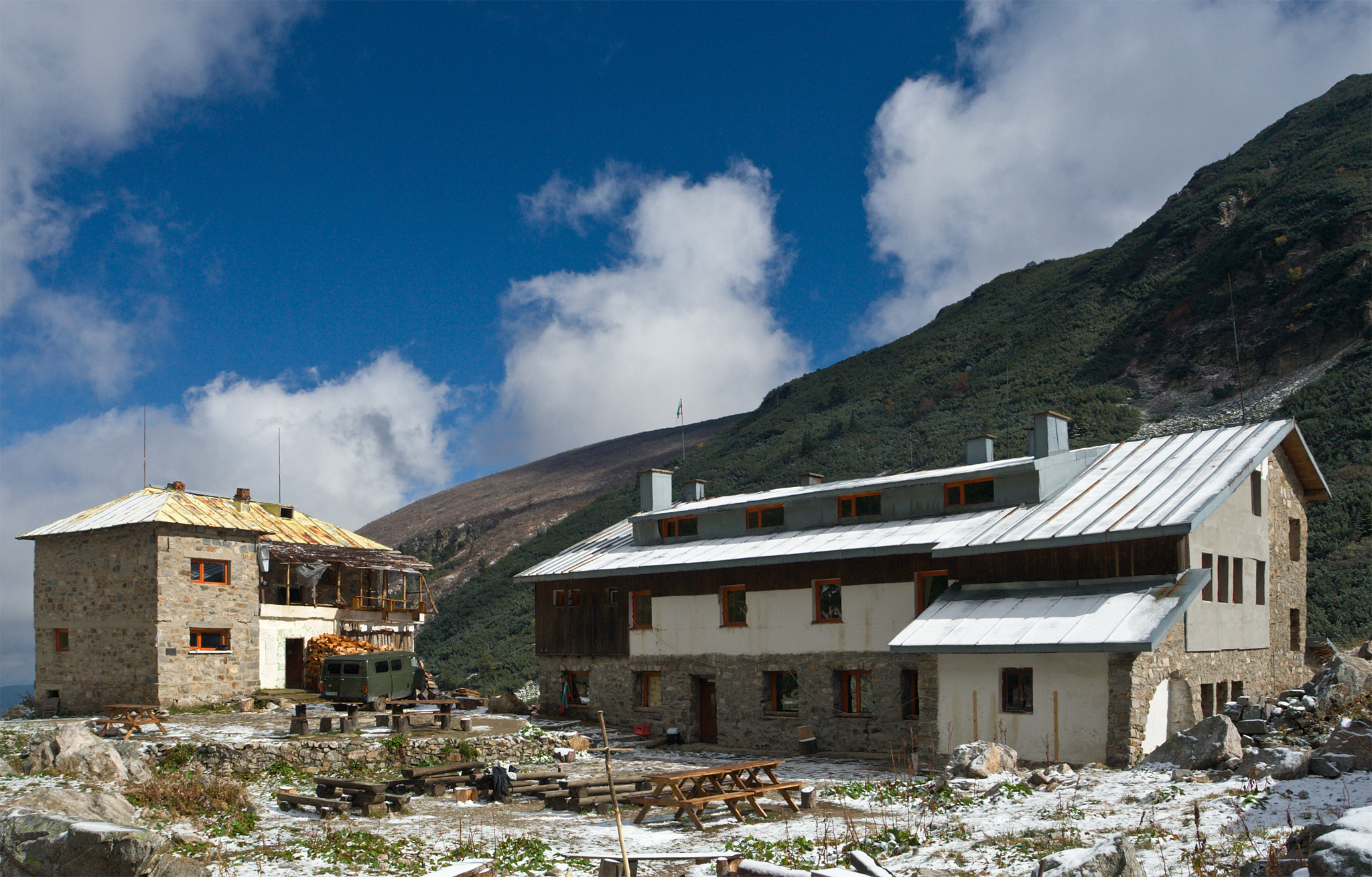 Maliovica hut, Rila mountain, Bulgaria